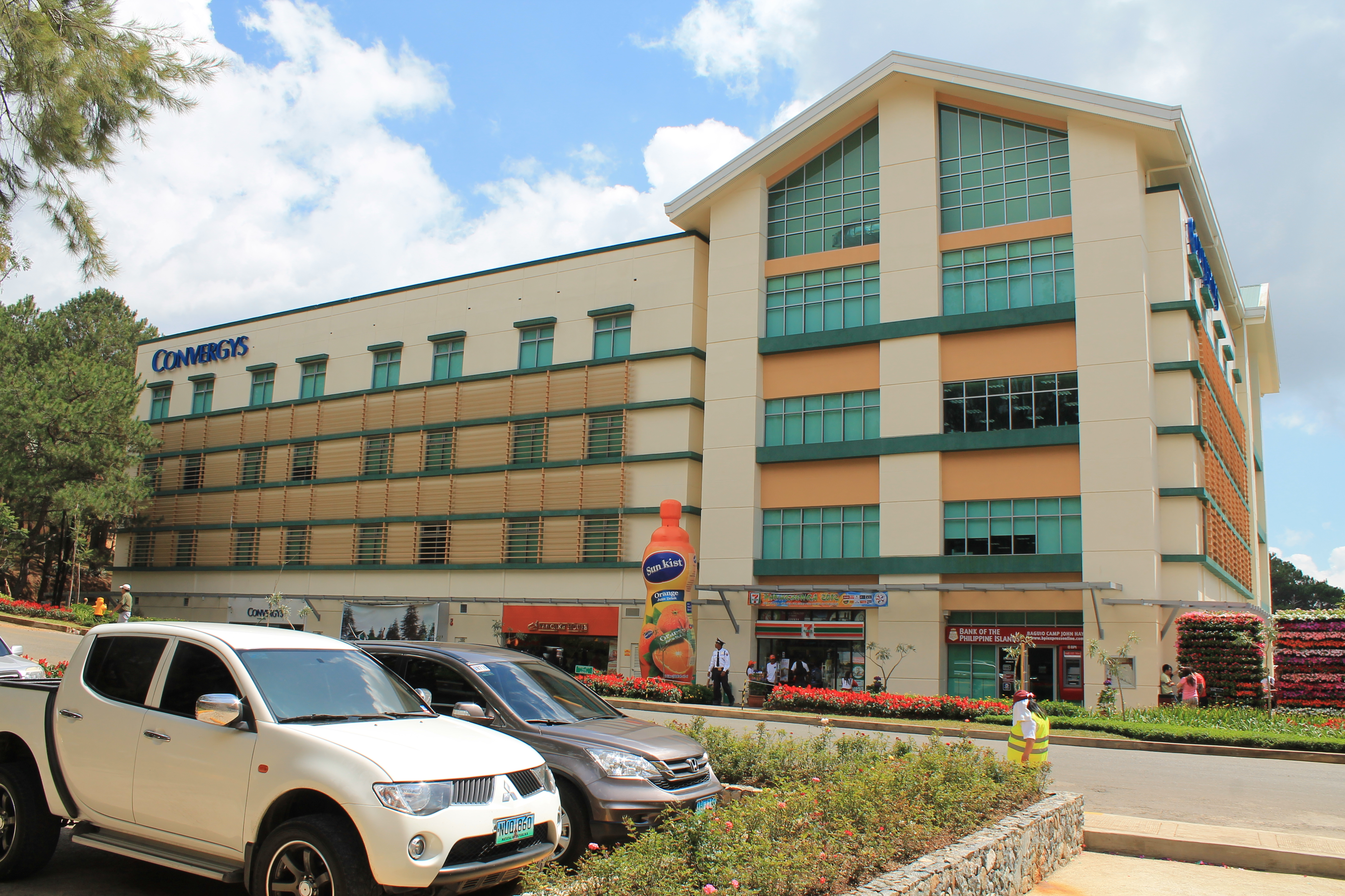 Convergys is a BPO company operating in Baguio, Manila and other parts of the Philippines